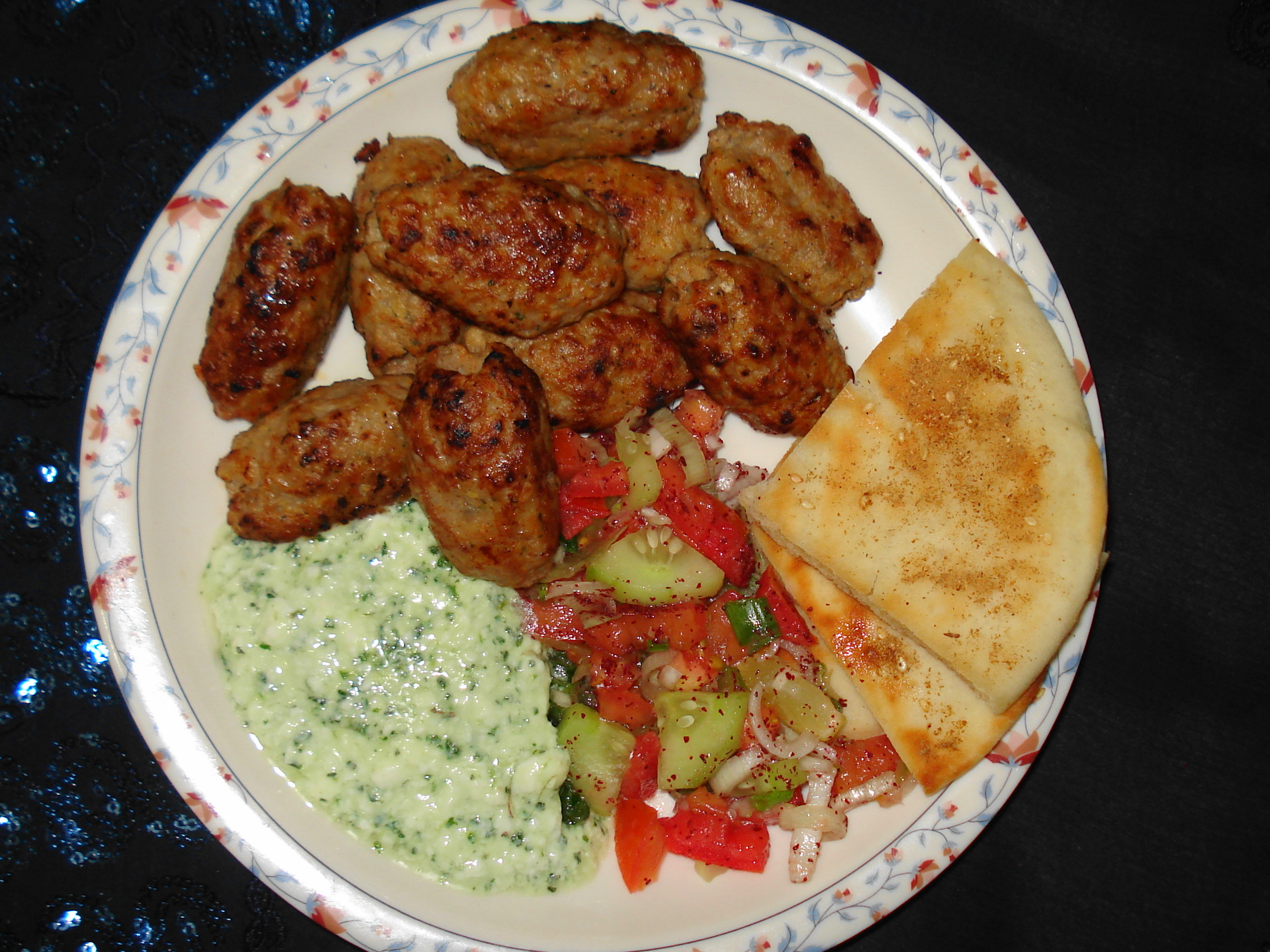 Kafta